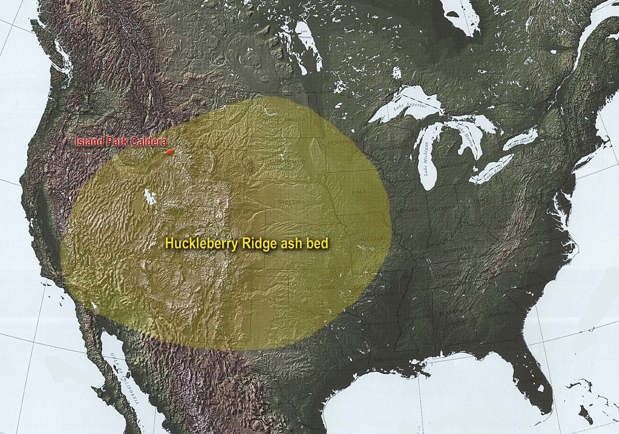 Graphic showing extent of Huckleberry Ridge ash bed.